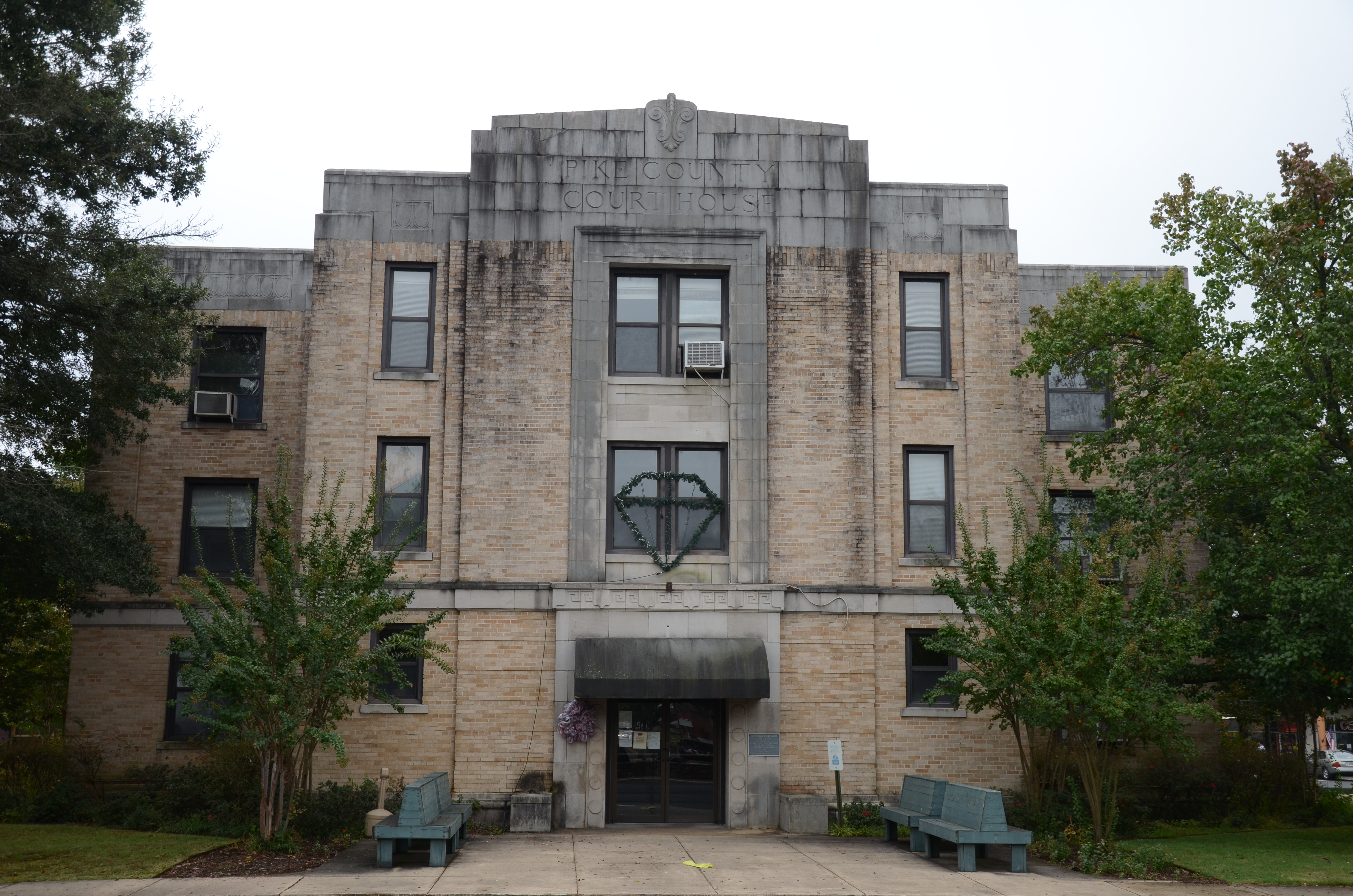 Pike County Courthouse